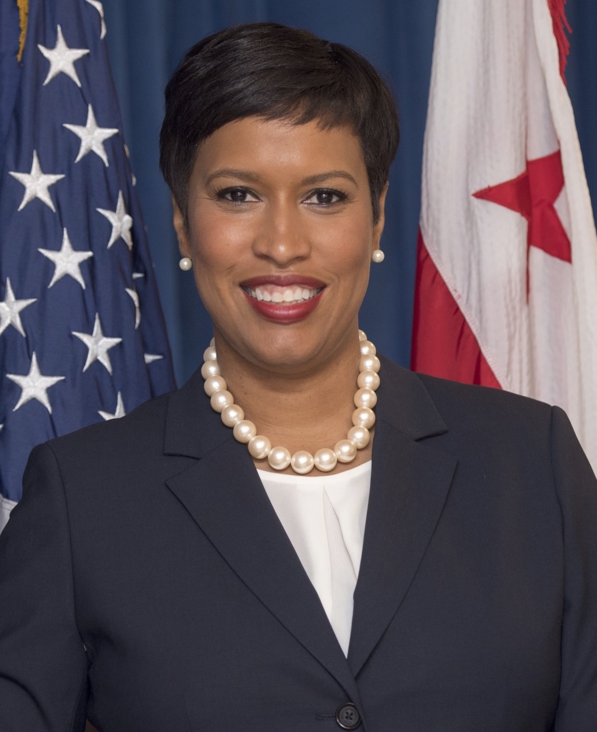 Muriel Bowser 8th mayor of Washington D.C.